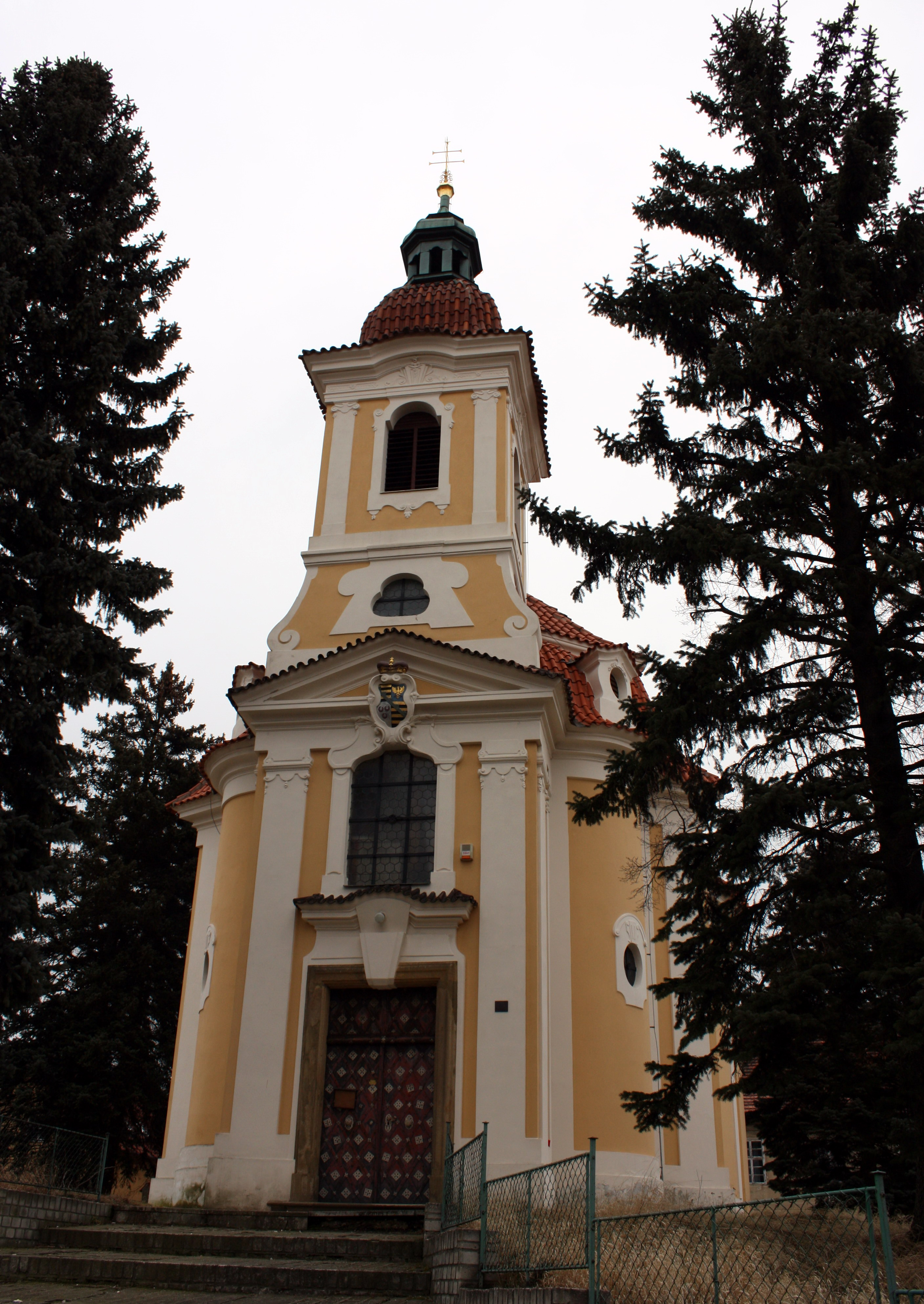 Baroque church in Rudná, Central Bohemia, Czechia. Built 1740-1747.